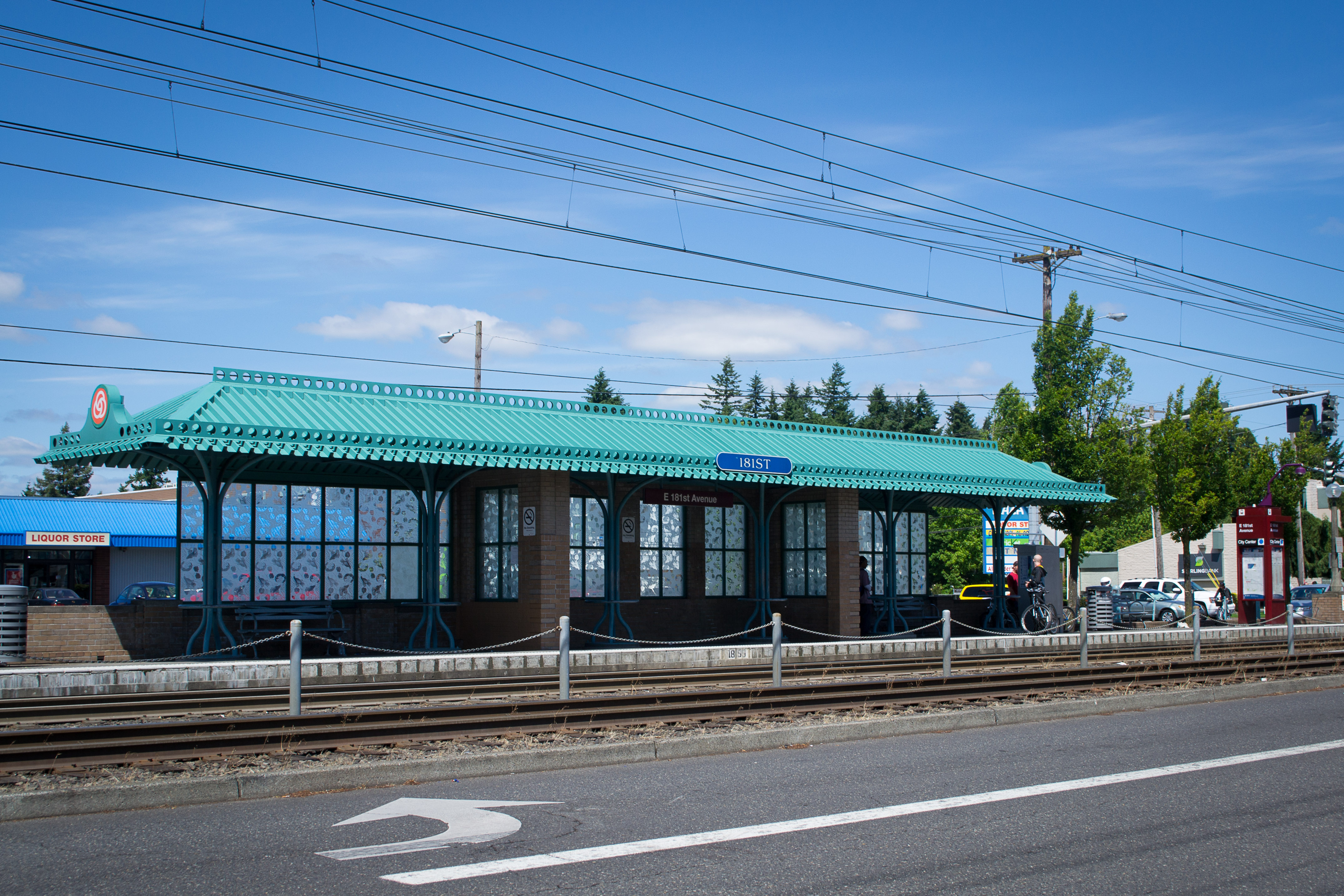 Portland's East 181st Avenue MAX Station